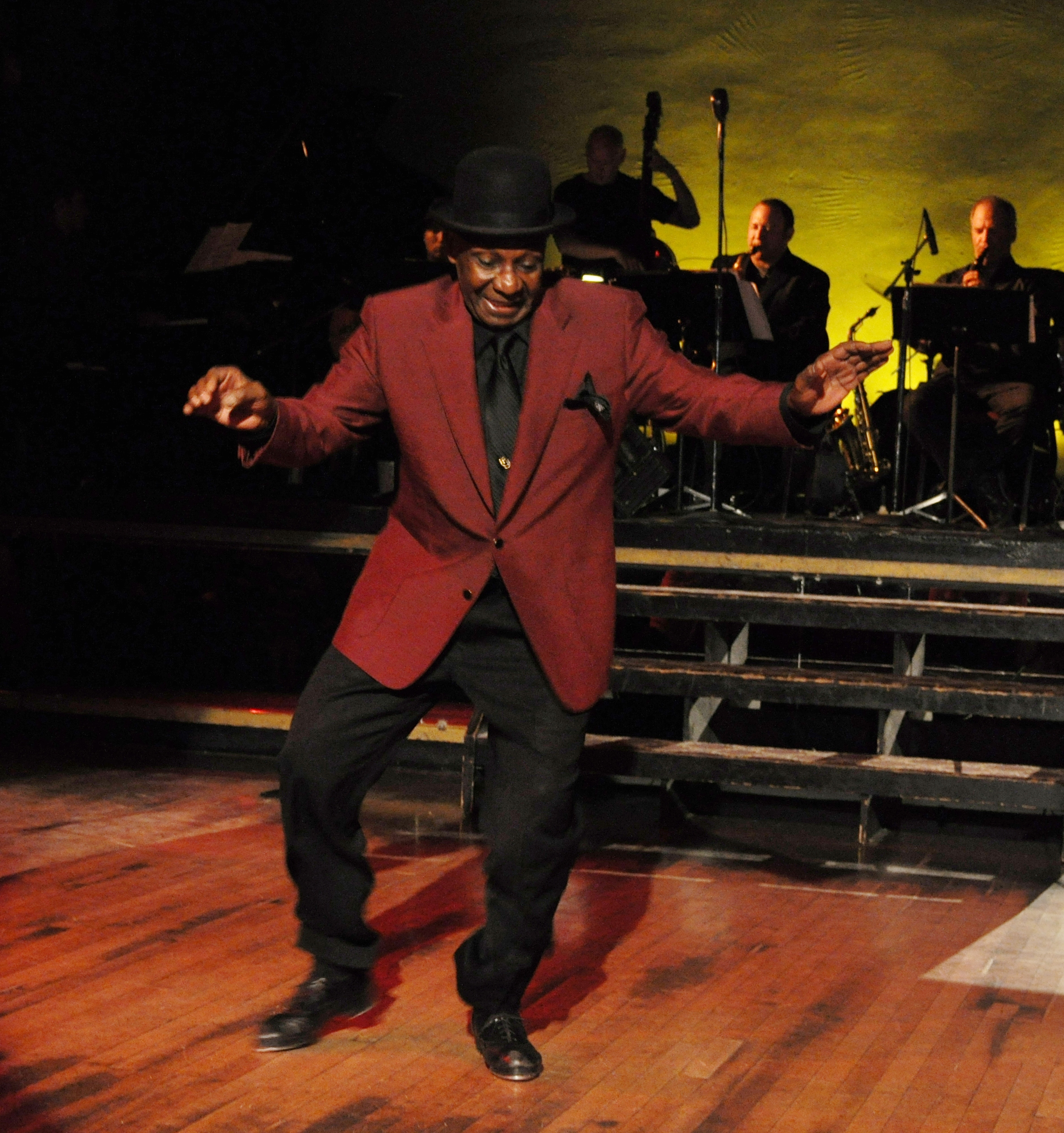 Dancer Chazz Young appearing at Masters of Lindy Hop and Tap, Century Ballroom, Oddfellows Temple, Pine Street, Capitol Hill, Seattle, Washington, USA. See Chazz Young on the site of that event for more about Young.